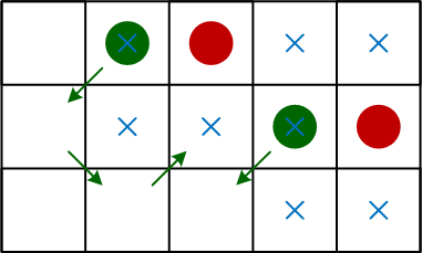 Picture shows zone control as gameplay element: this zone control type is in use of the first civilization video game. Most likely this type of zone control was invented decades before Civ and the picture can be used to depict it for the other wargames (wargame as a genre).